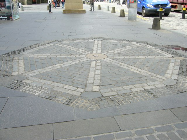 The Mercat Cross was the place where Edinburgh merchants gathered to transact business before the building of the Royal Exchange in 1753. It was also the site of executions. In 1756, the cross was removed. A new cross was built in the 1880s on a spot adjacent to St Giles High Kirk inside Parliament Square where the cross had originally stood before being moved to this site in 1617. The current location of the cross is only a few metres from the 1617-1656 location, and easily visible from it.